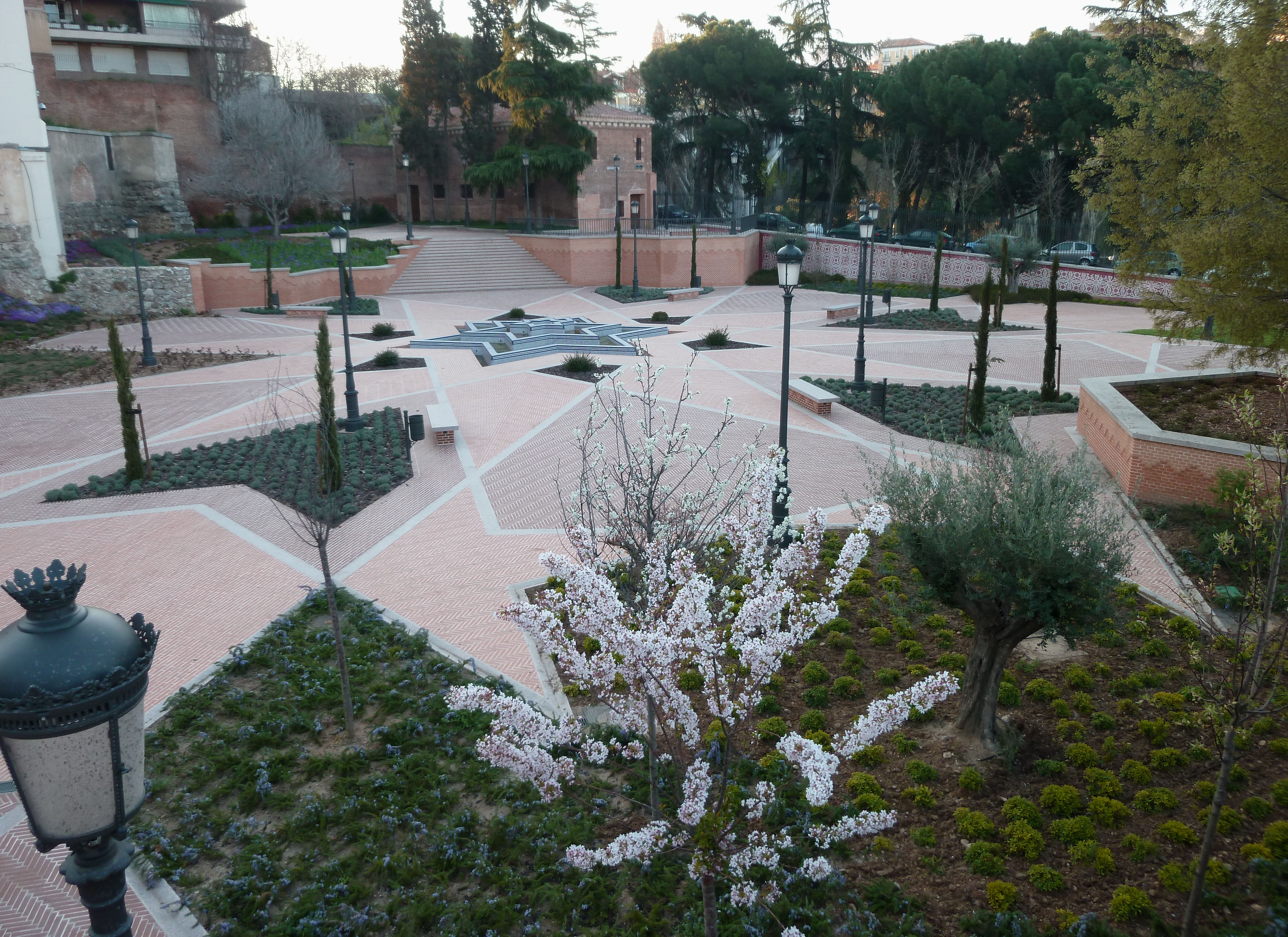 View of Parque del Emir Mohamed I (a park) in Madrid (Spain).